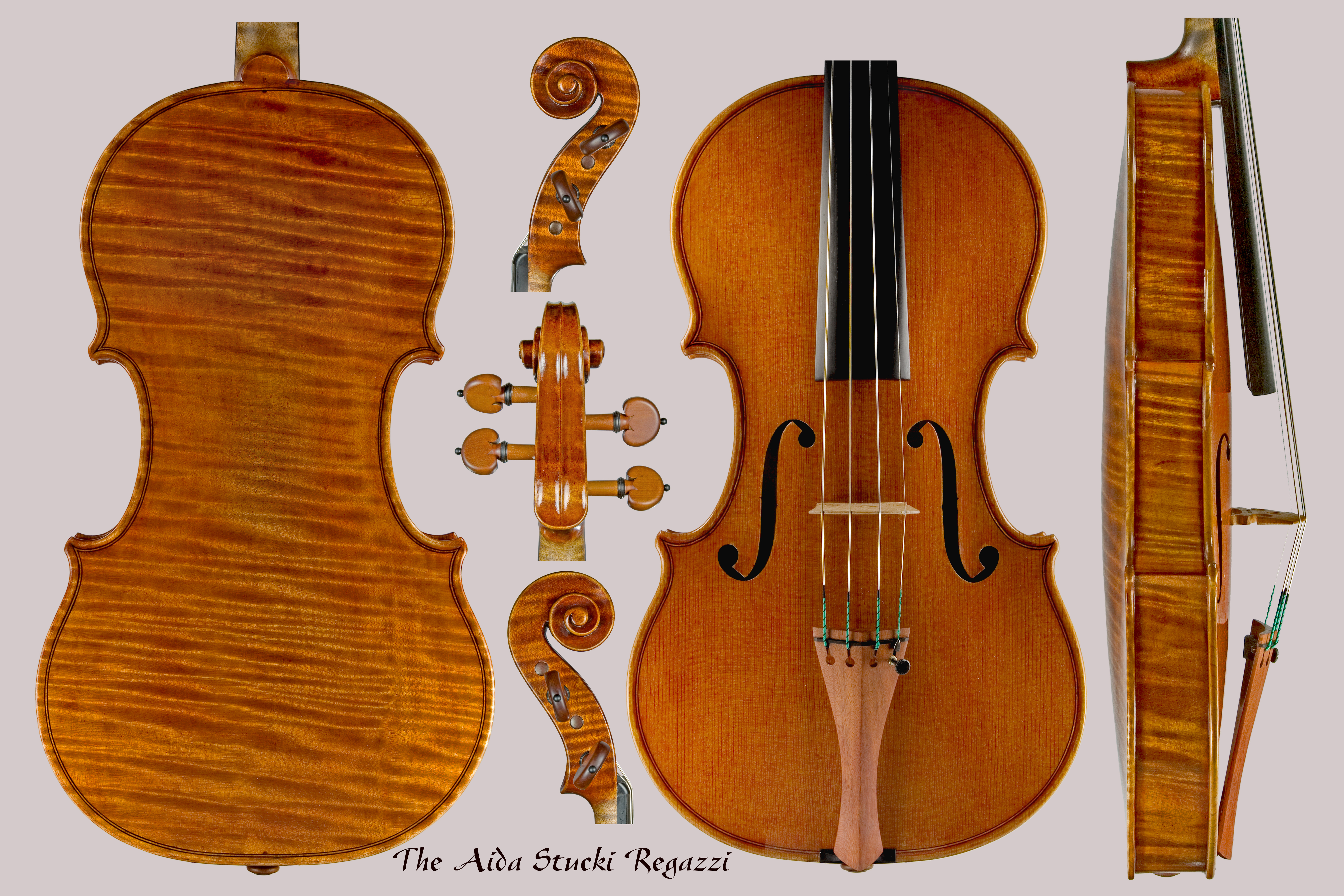 Dedicated to Aida Stucki-Piraccini